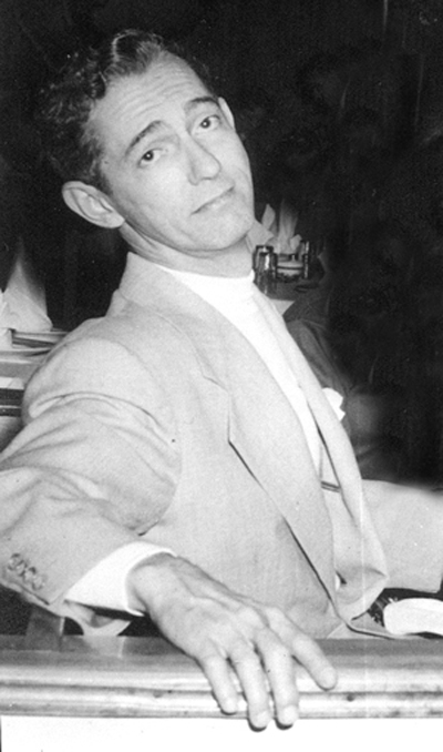 New York City 1953, Ramón Rivero having dinner with friends at the Stork Club, in Manhattan (1953) Other information We own the worldwide rights to the Ramón Rivero estate